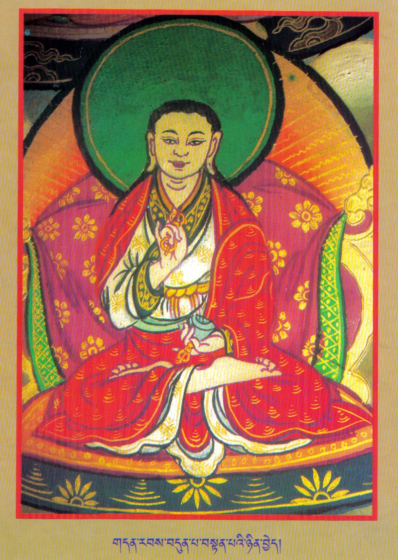 The Seventh Gangteng, Orgyen Tenpai Nyinje b.1875 - d.1905